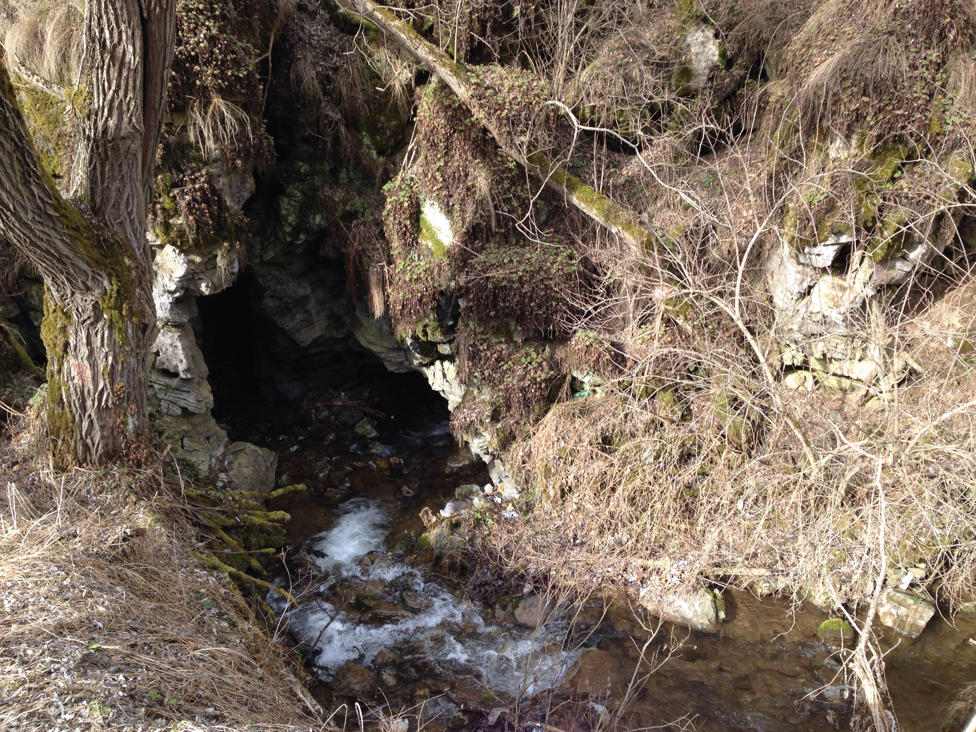 Krapa River in Macedonia